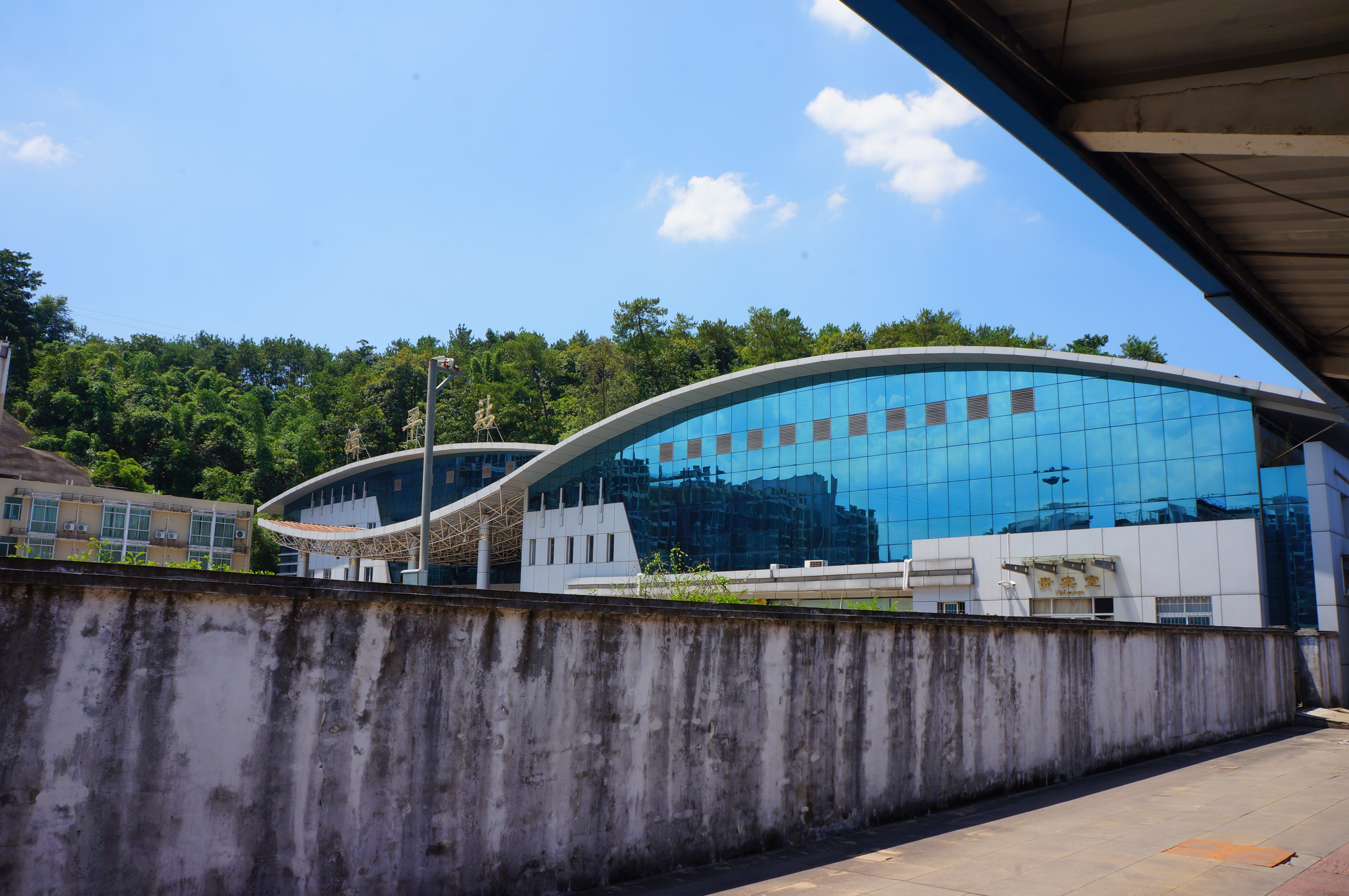 201708 Zhangping Railway Station. The station building is perpendicular to the yard.